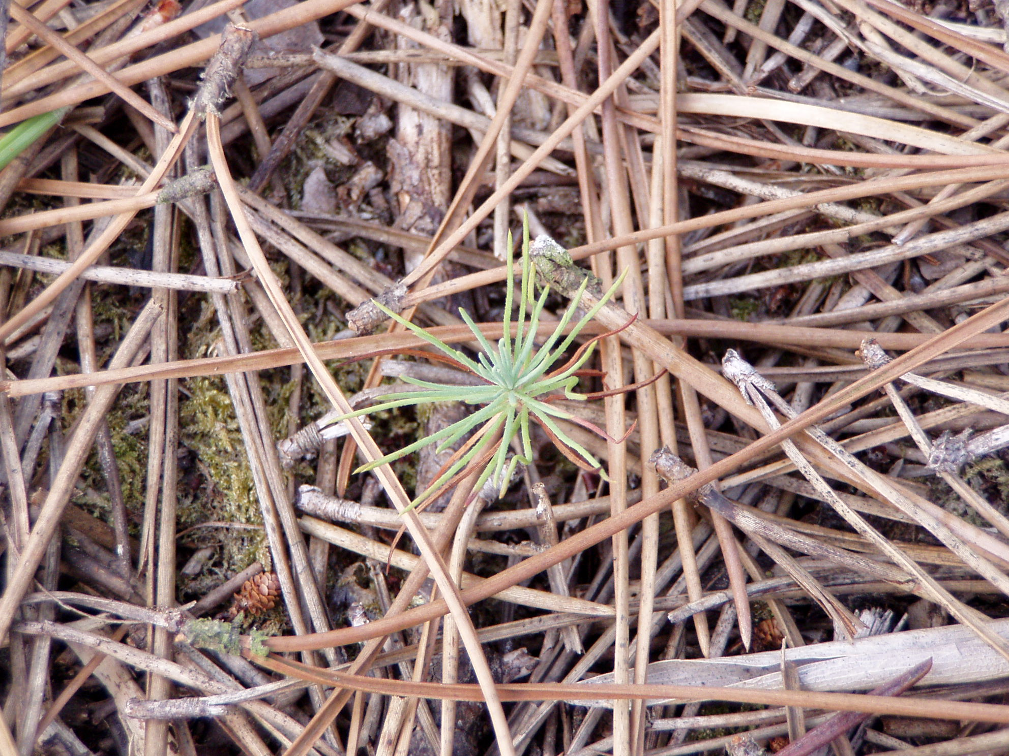 Maritime Pine